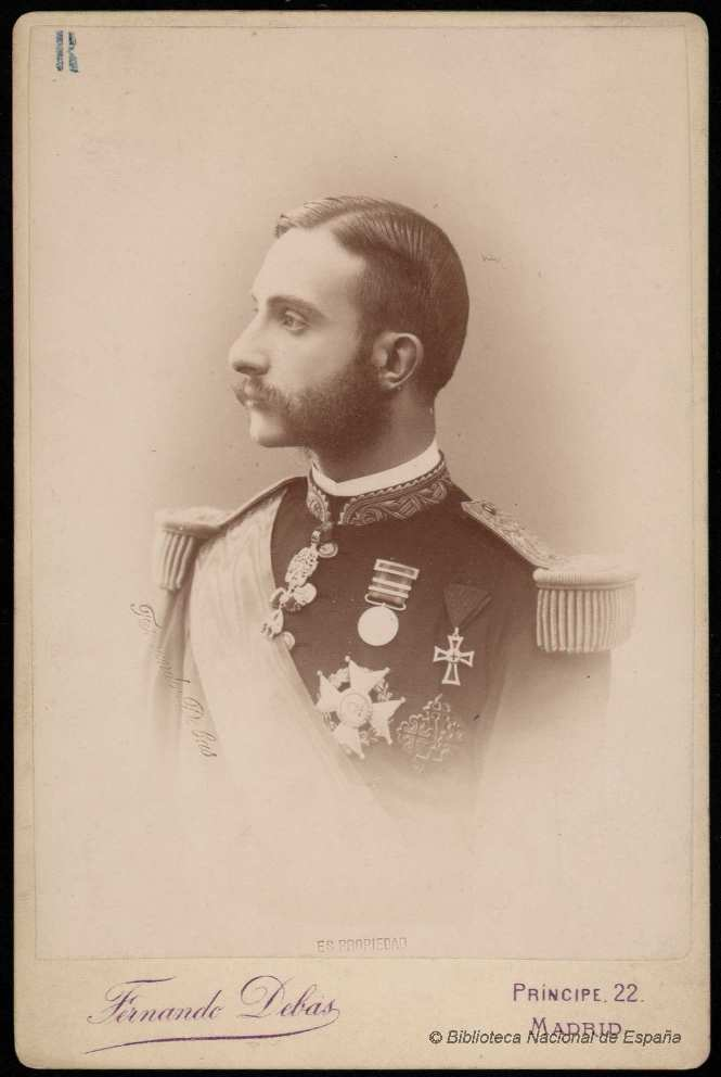 Alfonso XII (Spanish: Alfonso Francisco de Asís Fernando Pío Juan María de la Concepción Gregorio Pelayo